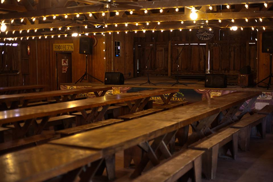 The dance hall of Luckenbach, Texas.